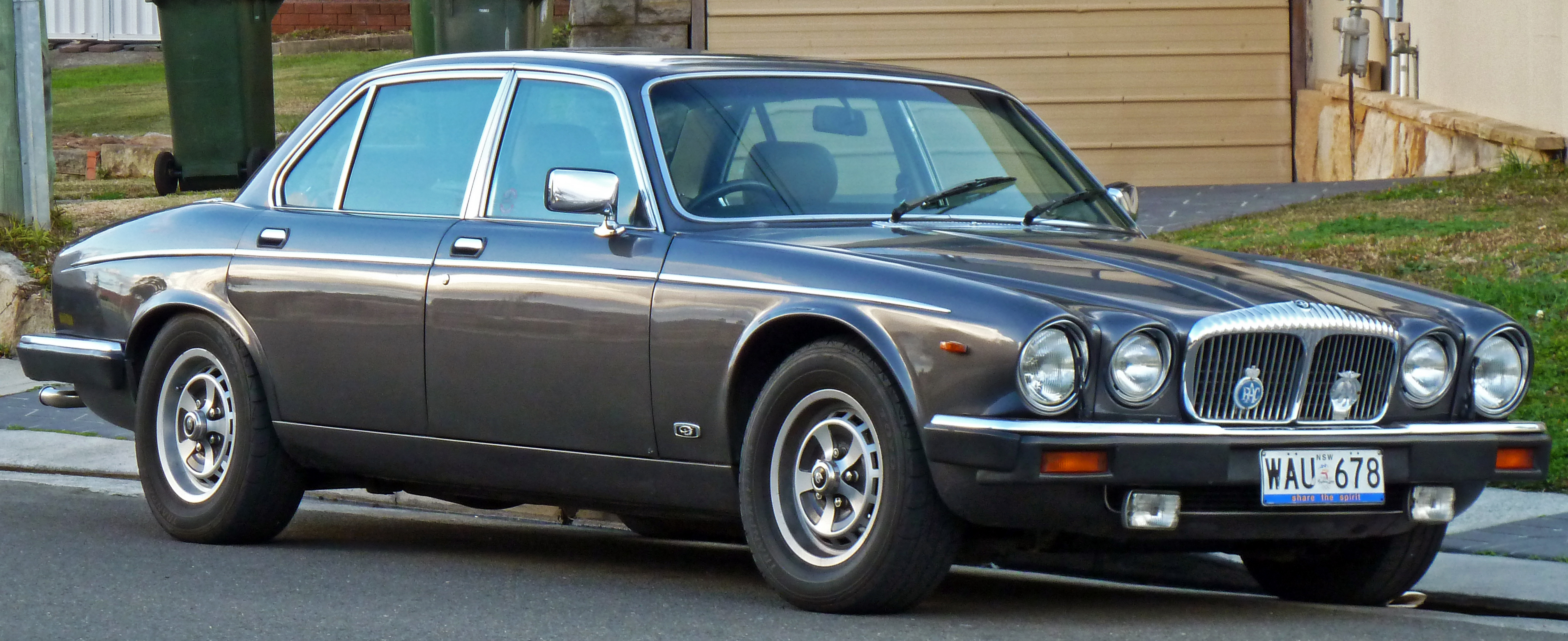 1987 Daimler Double Six sedan. Photographed in Sylvania, New South Wales, Australia.